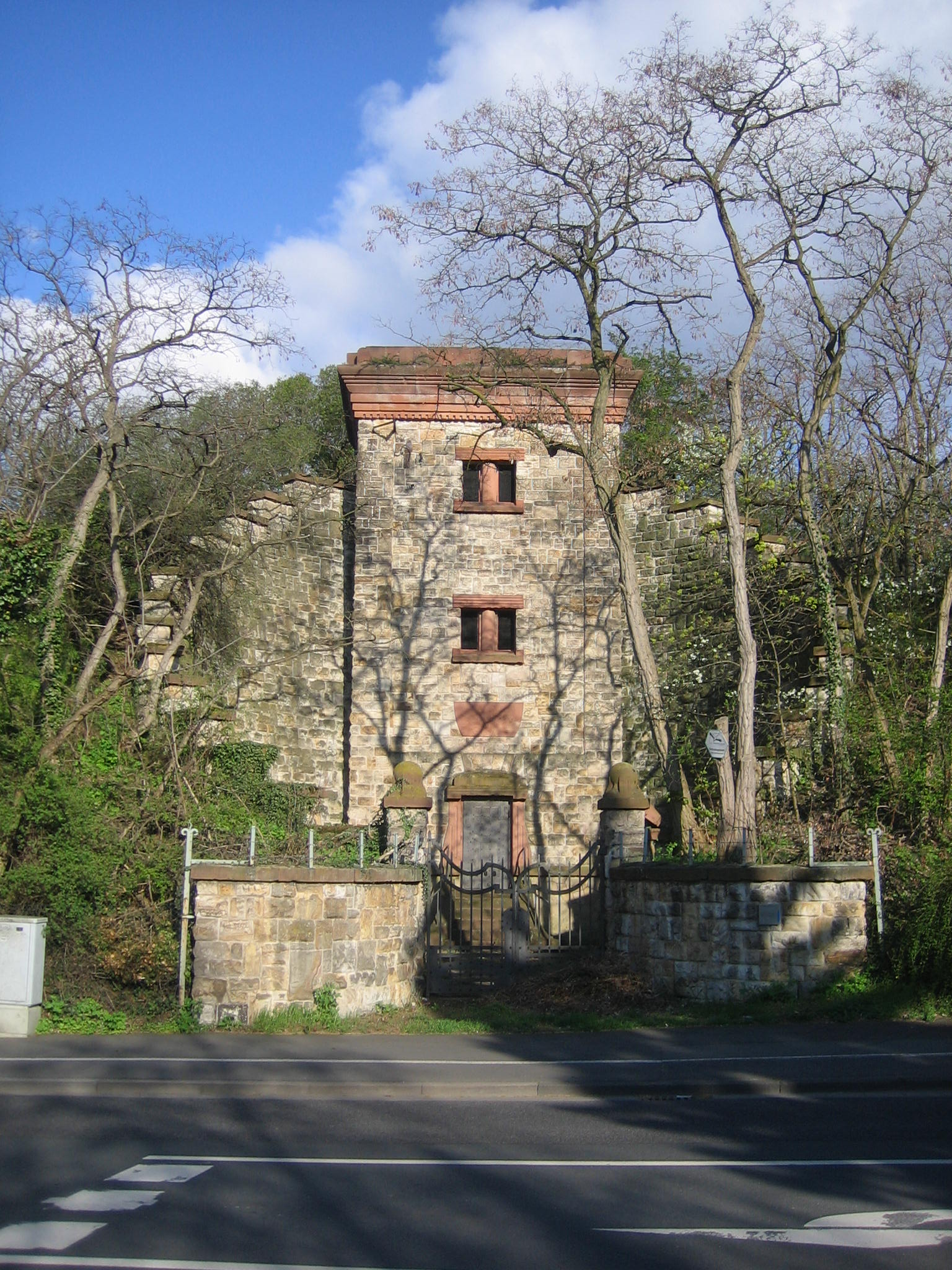 Mainz-Mombach, Kreuzstraße 10: Water storage facility, high level reservoir; historicising towerlike bossed stone building, designated 1904, erected by the Grand Ducal culture inspection Mainz